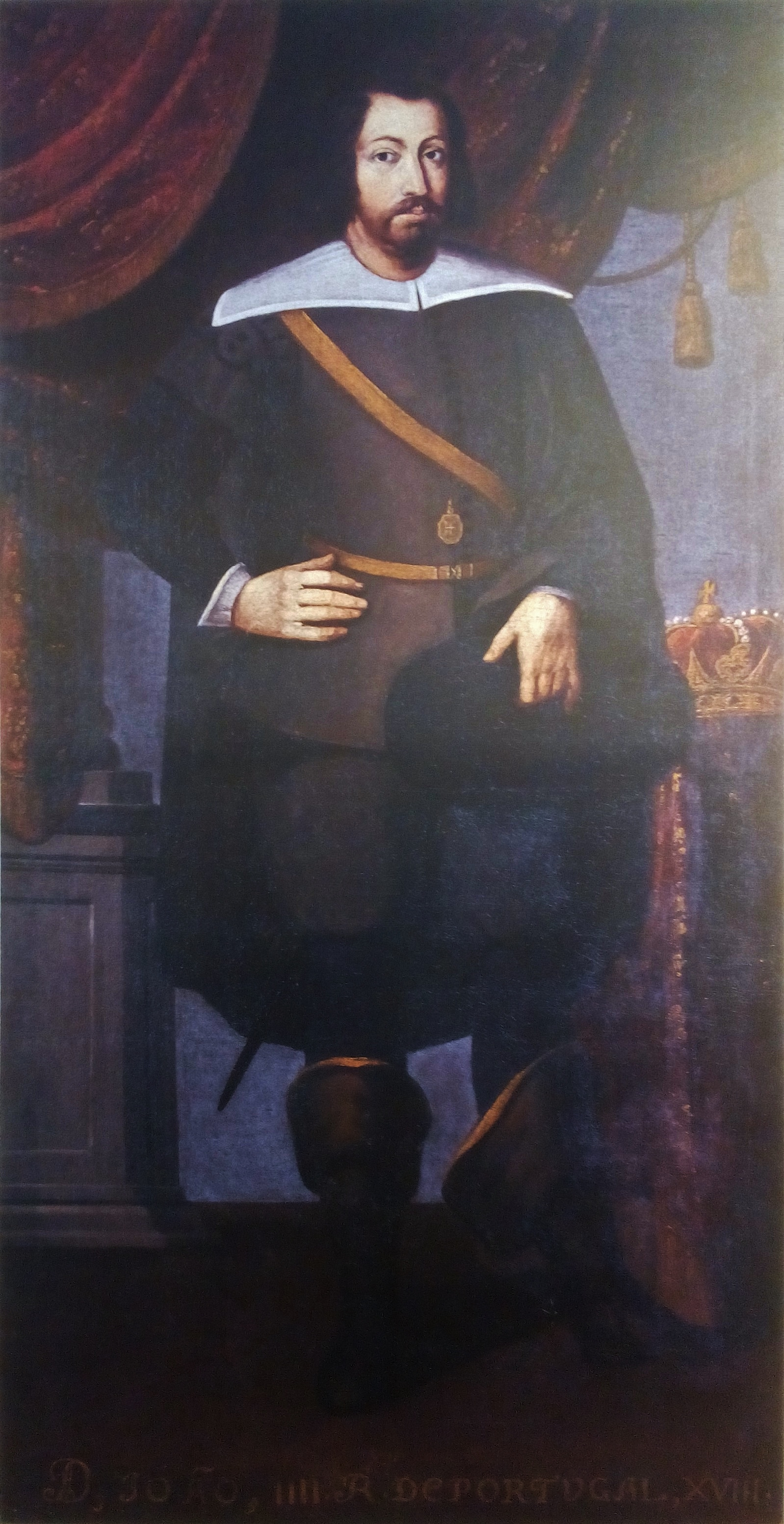 King John IV of Portugal (1604-1656), in a 1718 painting by Henrique Ferreira.